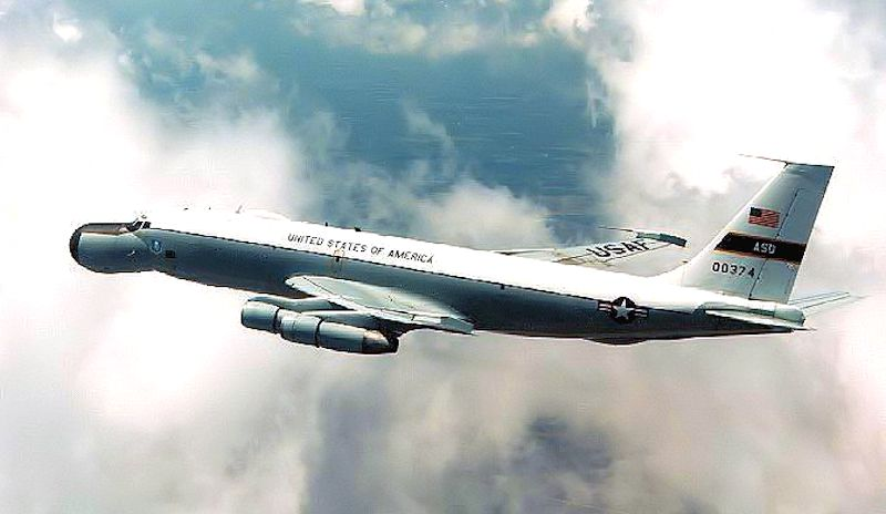 452d Flight Test Squadron - EC-18B Advanced Range Instrumentation Aircraft 60-0374 Retired Nov 2, 2000 to USAF Museum, Wright Patterson AFB, OH. Named *Bird of Prey*.